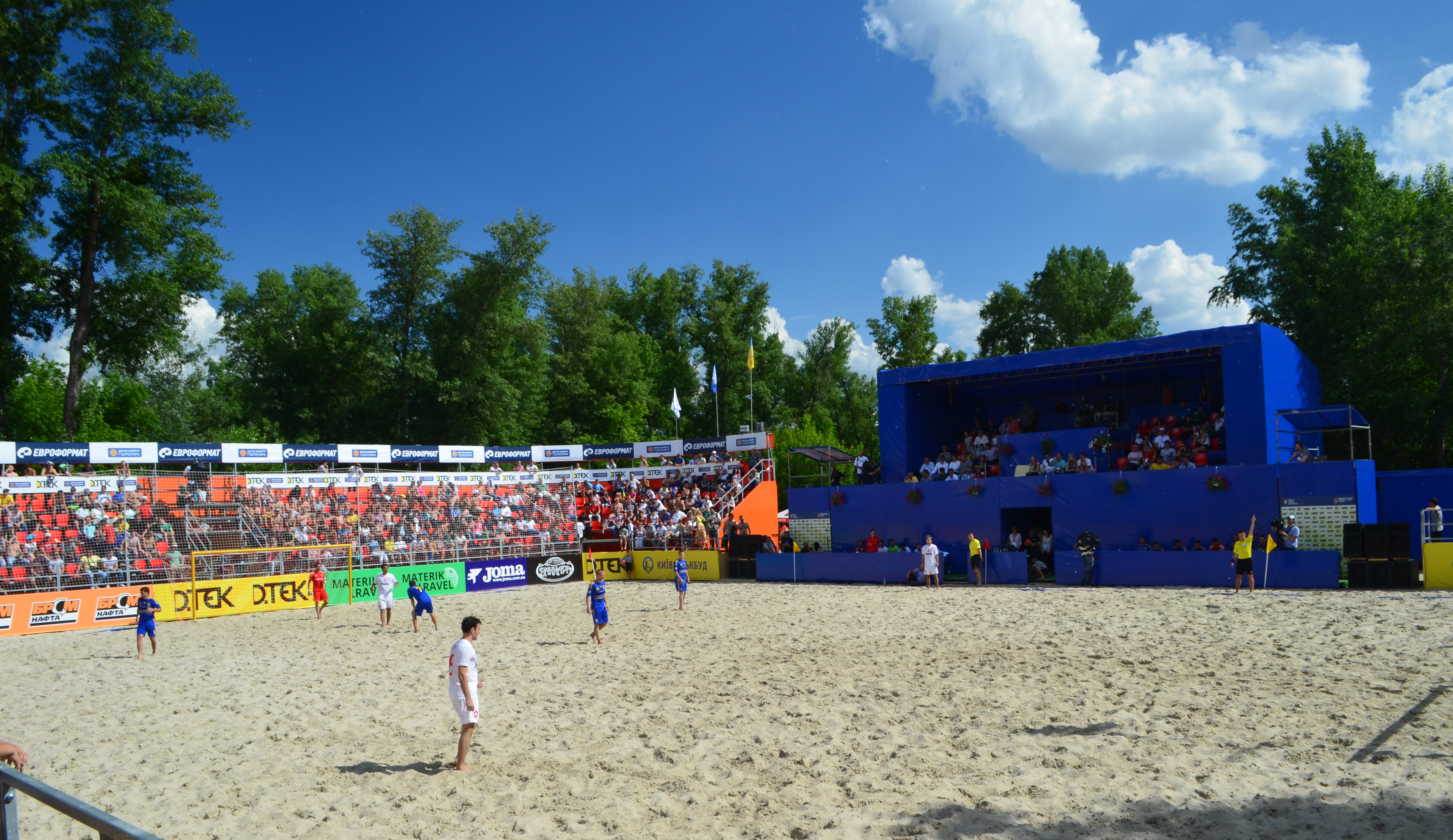 At this arena taking place official matches Ukraine national team beach soccer, championship of Ukraine beach soccer, Kyiv Cup of beach soccer and many other formal events.